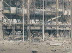 Photos in Publication 10321 (Washington, DC: US Department of State, April 1996), Some of the structural damage caused by a large car bomb in Docklands, London, UK, February 1996. The Provisional IRA claimed responsibility for the bombing.